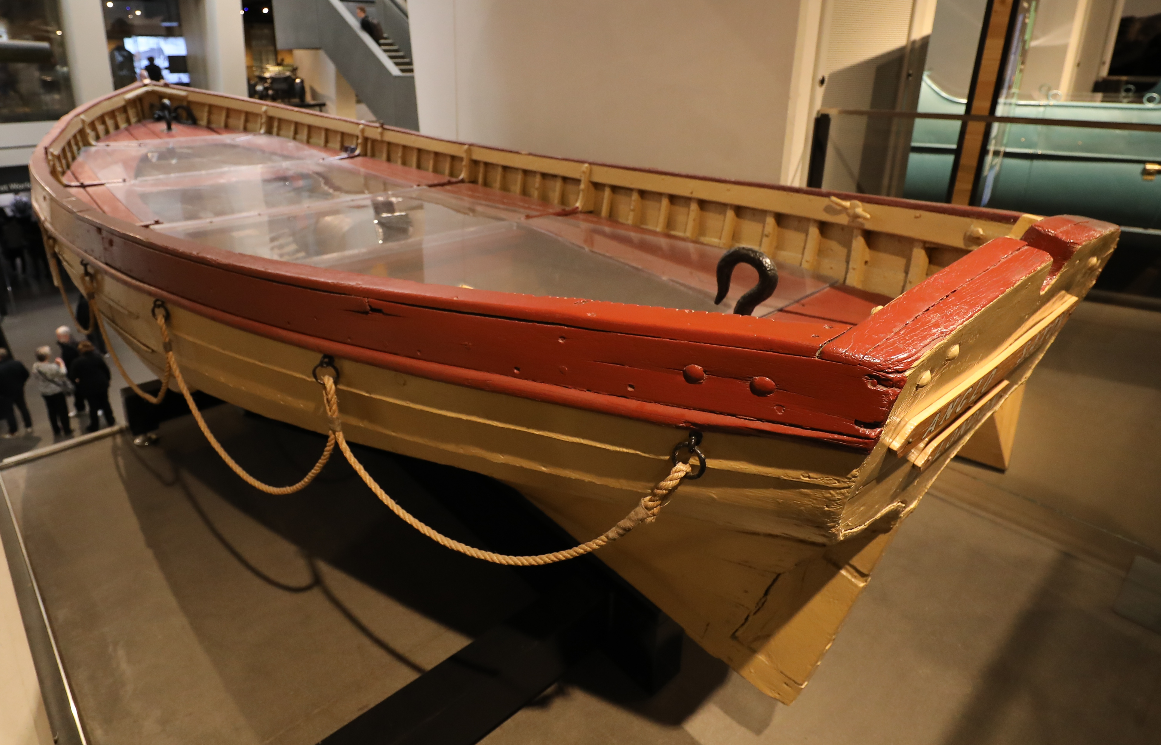 photo of the jolly boat of SS Anglo Saxon in the imperial war museum in london